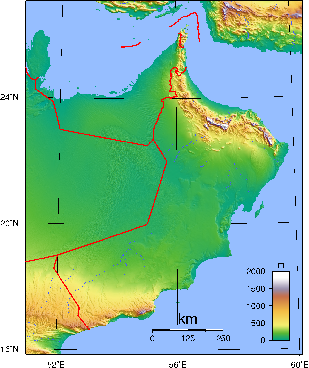 Topographic map of Oman. Created with GMT from publicly released SRTM data.